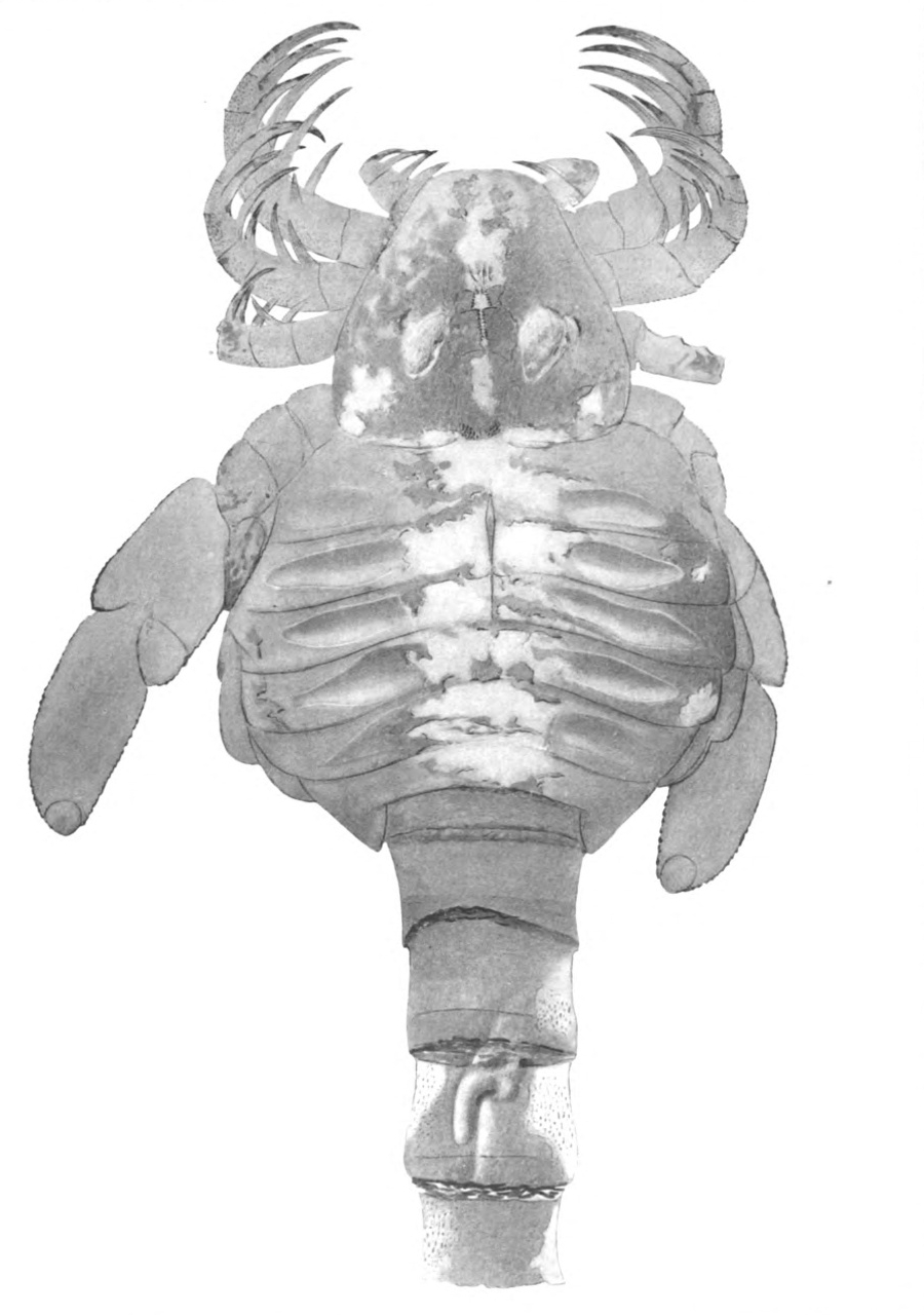 Carcinosoma (Eusarcus) newlini. Claypole Page 245 See plates 36, 38–39 1 A small specimen showing the four pairs of walking legs, the first of which is the shortest, and the swimming legs; the carapace and the ventral side of the abdomen with distinct attachment areas of the gill plates on the sternites. The eyes are not recognizable. Two pairs of gnathobases indicate the position of the mouth. The abrupt contraction of the preabdomen to the postabdomen and the form of the postabdominal segments are seen. The posterior doublures of these segments appear as dark bands Horizon and locality. Kokomo waterlime. Kokomo, Ind. The original is in the museum of Chicago University (no. 12900) The Eurypterida of New York. Volume 2. New York State Museum Memoir 14, plate 37